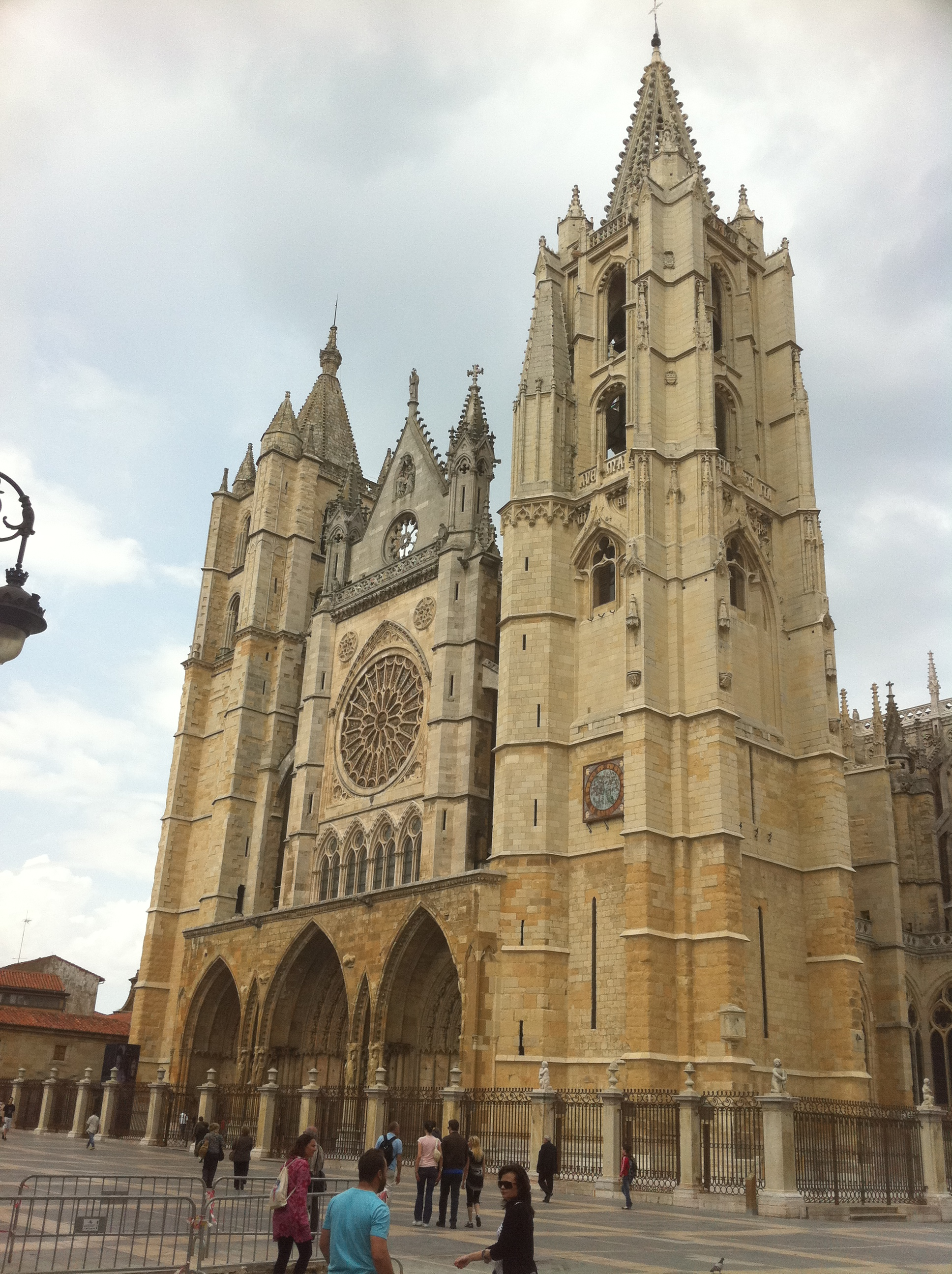 León Cathedral Castile and León spain